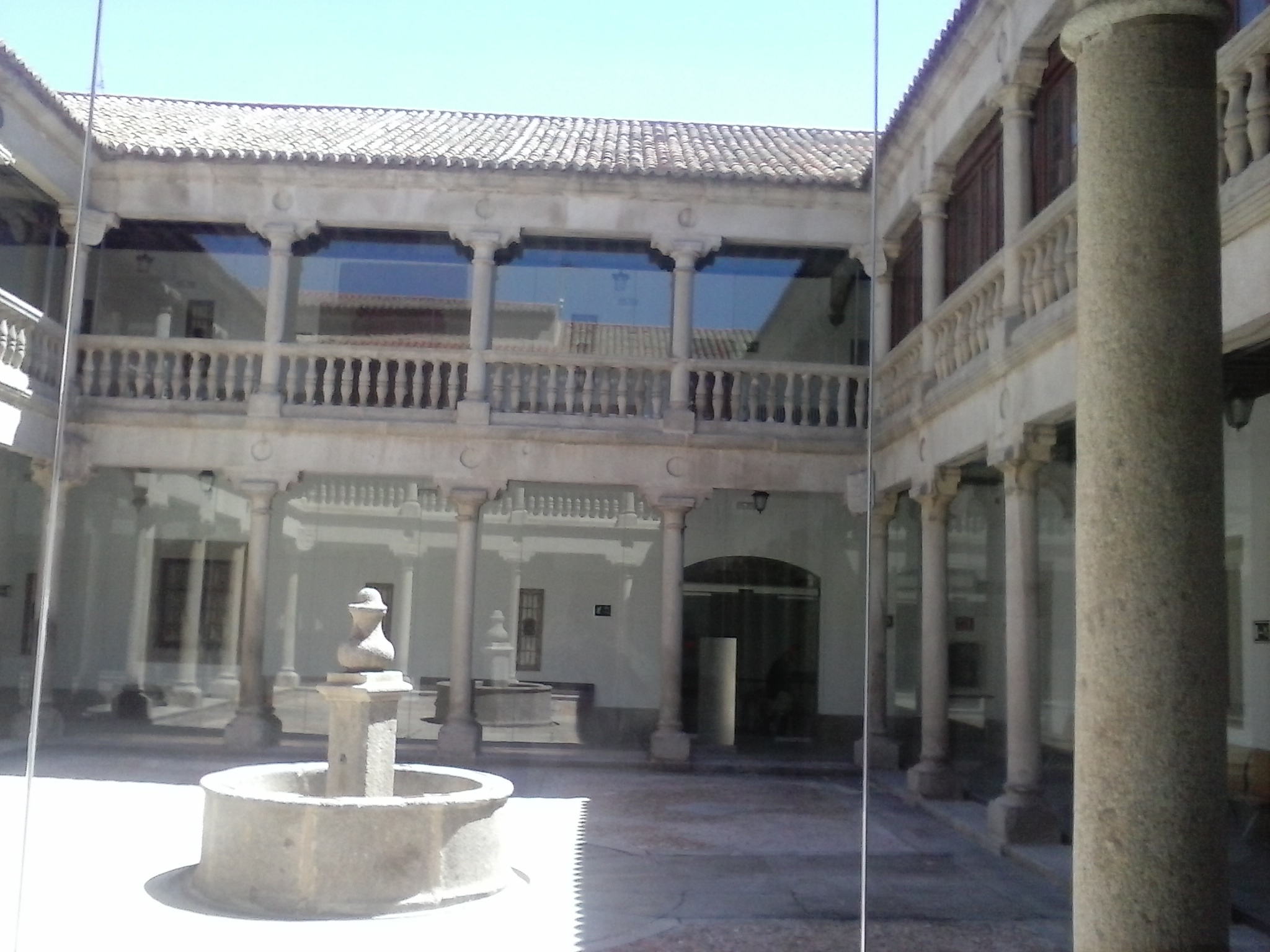 courtyard of the Nuñez Vela Palace, Ávila, Spain